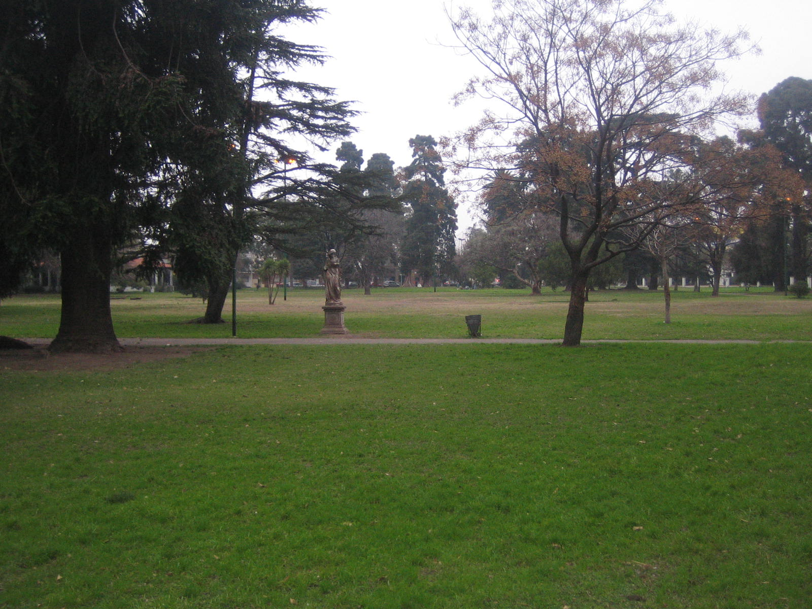 General Paz Park - Buenos Aires - Argentina